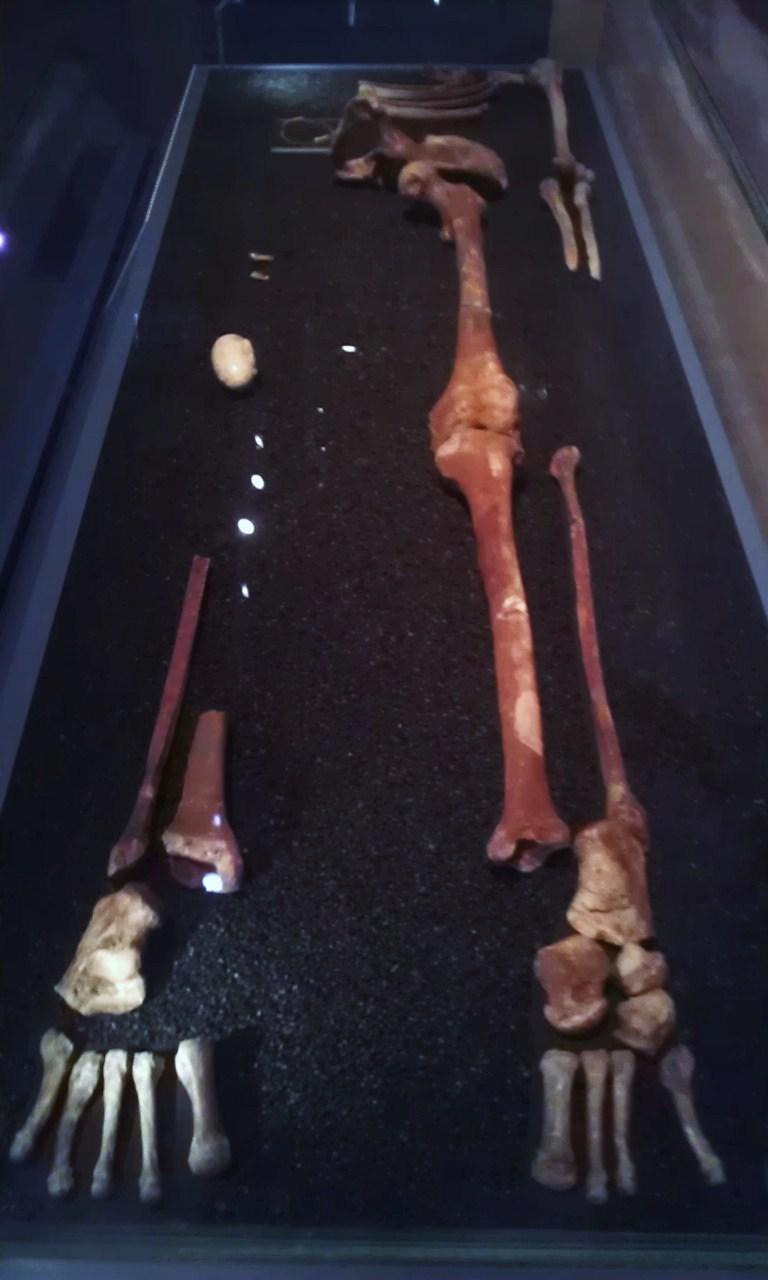 Palaeolithic male remains known as the "Red Lady of Paviland" found in southern Wales. Image taken when they were exhibited at the Natural History Museum in Summer 2014.